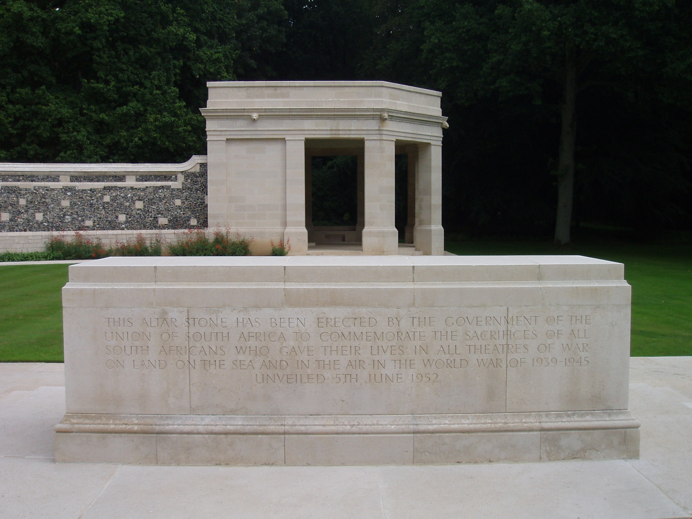 Part of a set of photographs of the Delville Wood South African National Memorial, near Longueval, France. This is a view of the left-hand side of the World War II Stone of Remembrance, and the English version of the Stone's inscription.